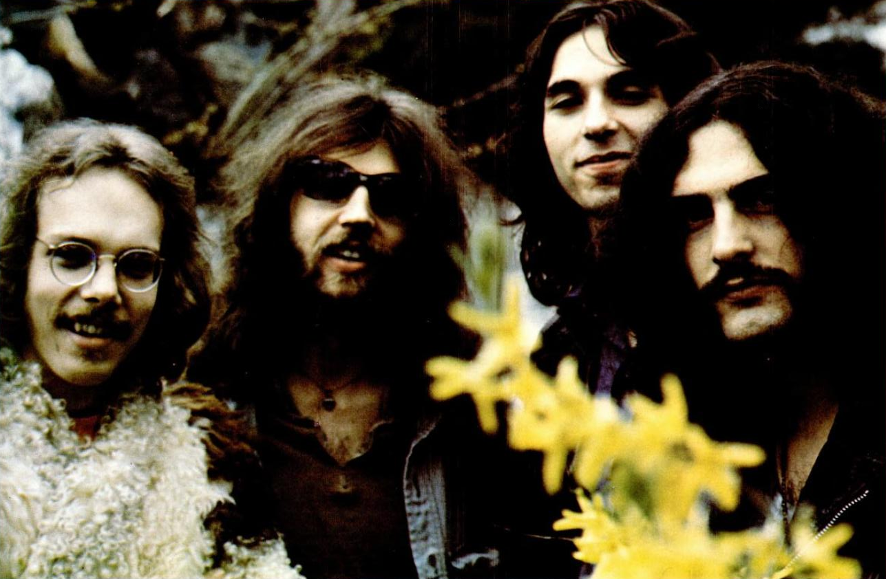 Trade ad for Premier Talent featuring the band Cactus.To better adapt it to his respective Wikipedia article, the ad was cropped and cleaned in a graphics editing program. The original can be viewed at the source below.